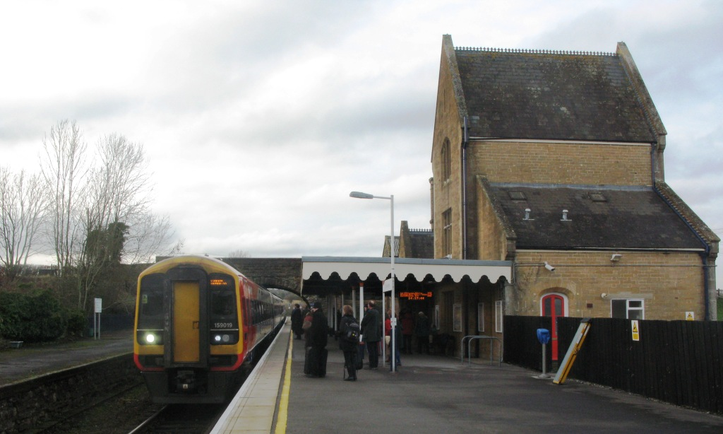 South West Trains' 159019 arrives at Crewkerne station in Somerset, England, on its journey from Exeter to London Waterloo.